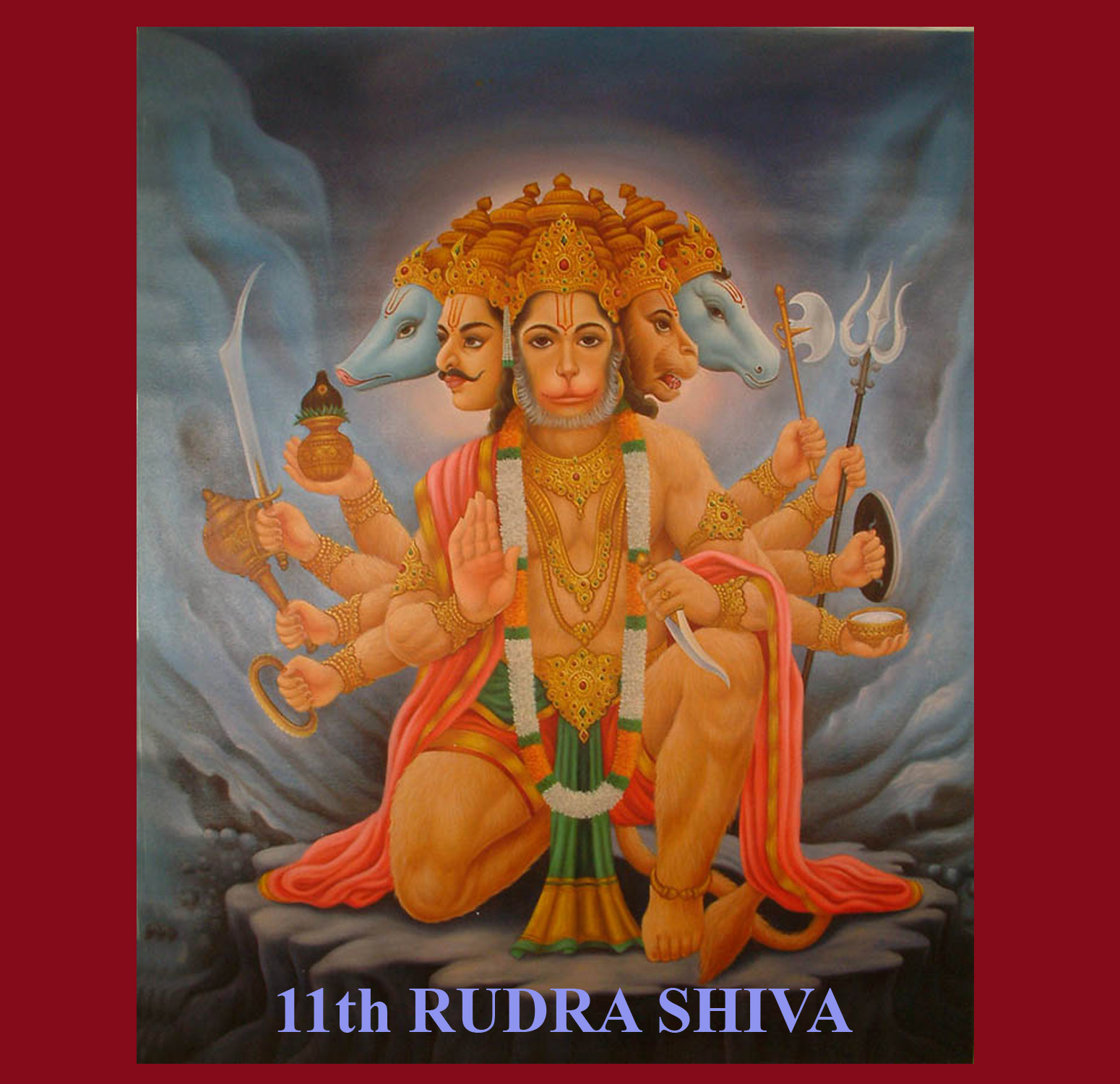 The philosophy of epic Ramayana is incomplete without the understanding of the unfathomable devotion of Lord Hanuman for Shri Rama. As Hindu Mythology says, He was the incarnation of Lord Shiva the God of Destruction, the Third god of Hindu trinity (All this universe is in the glory of God, of Shiva, the God of Love. The heads and faces of men are His own and He is in the hearts of all - Yajur Veda). He is beleived to be 11th Rudra (Shiva) avatar.